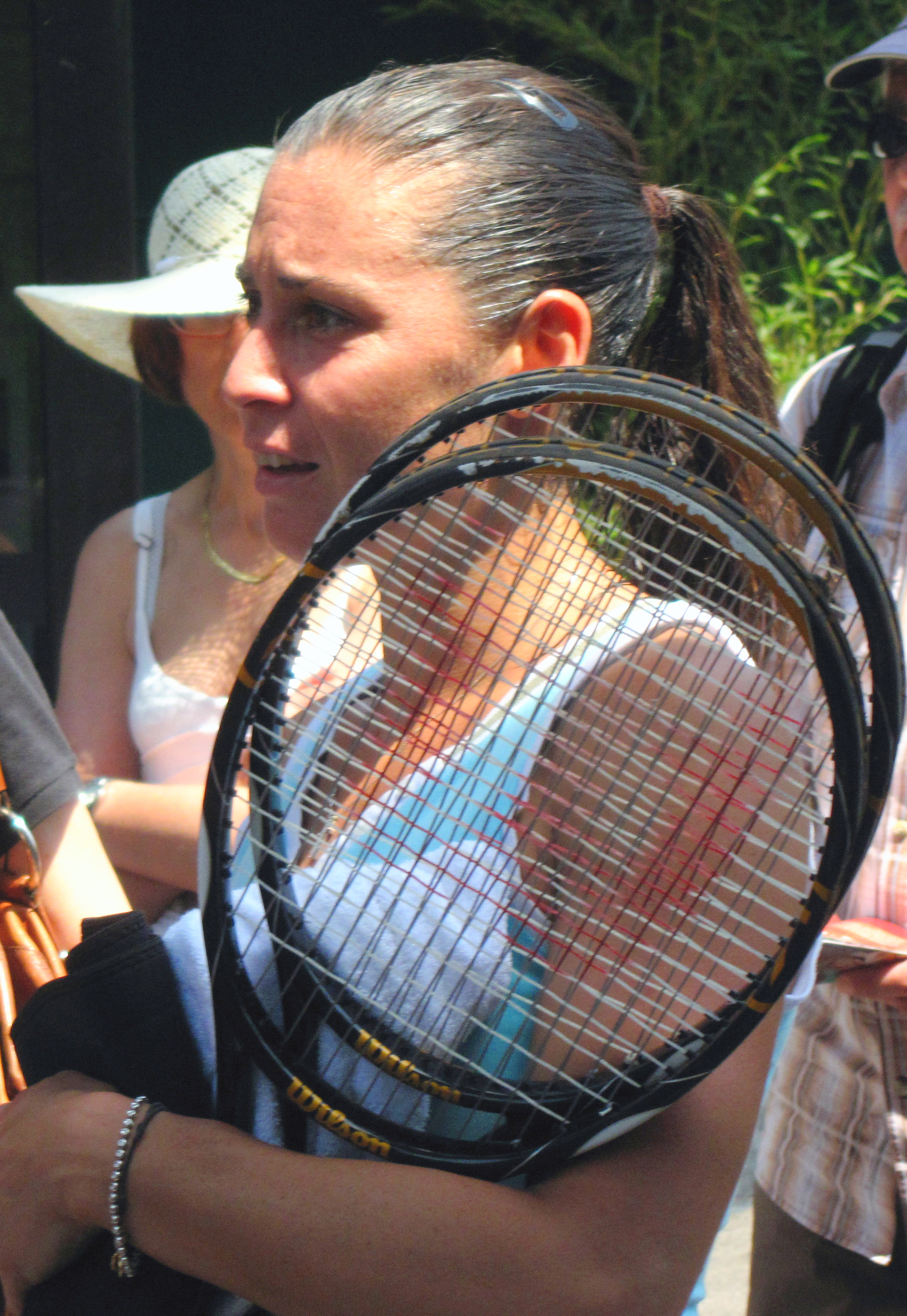 Flavia Pennetta at 2009 Roland Garros, Paris, France